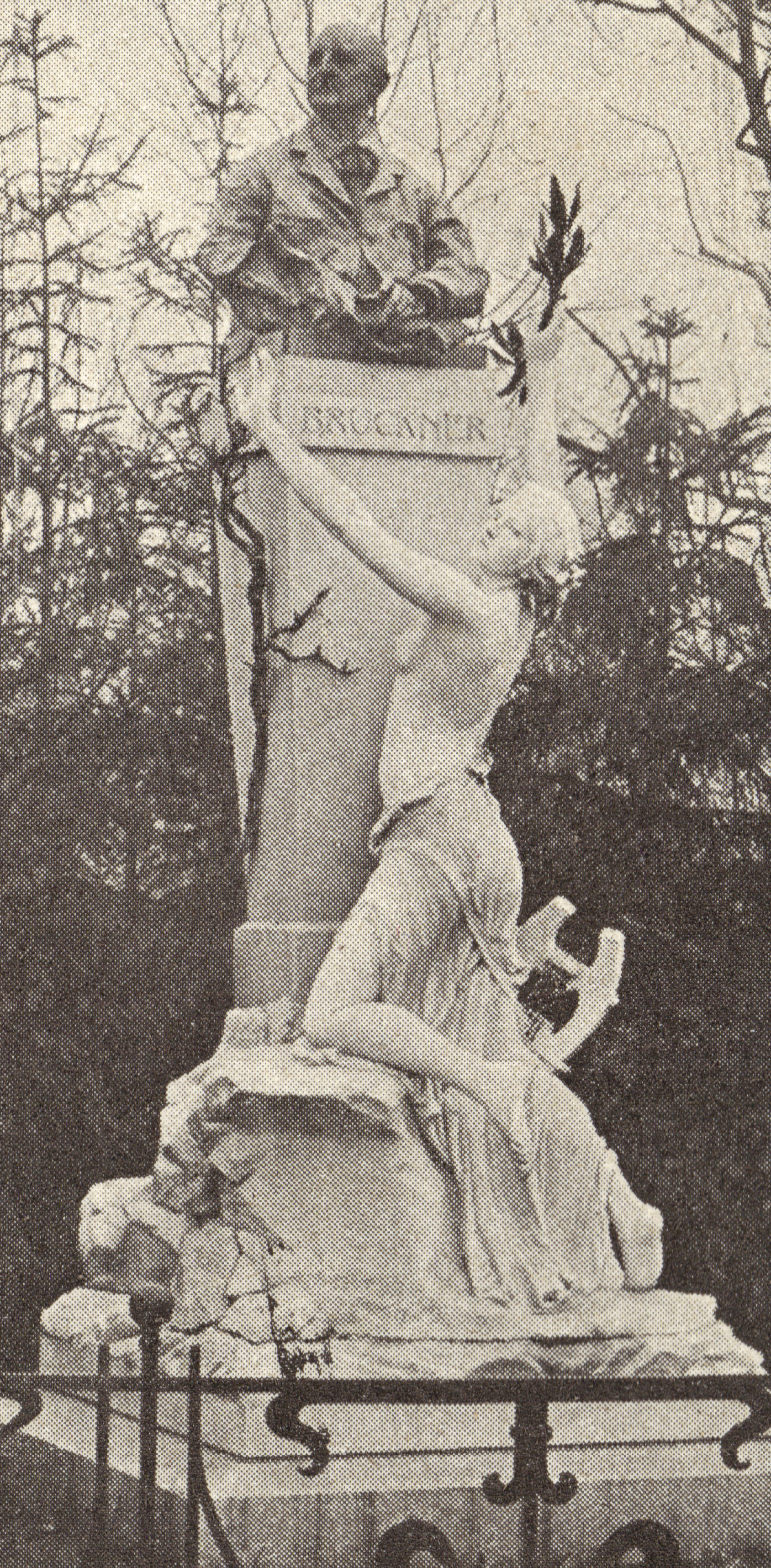 Anton Bruckner's Monument in Vienna's Stadtpark, original version (later vandalized and simplified)